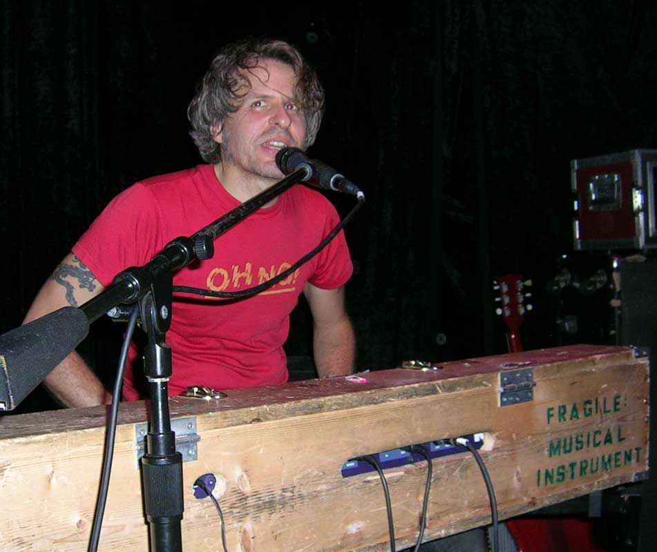 Sam Coomes onstage at a Quasi concert